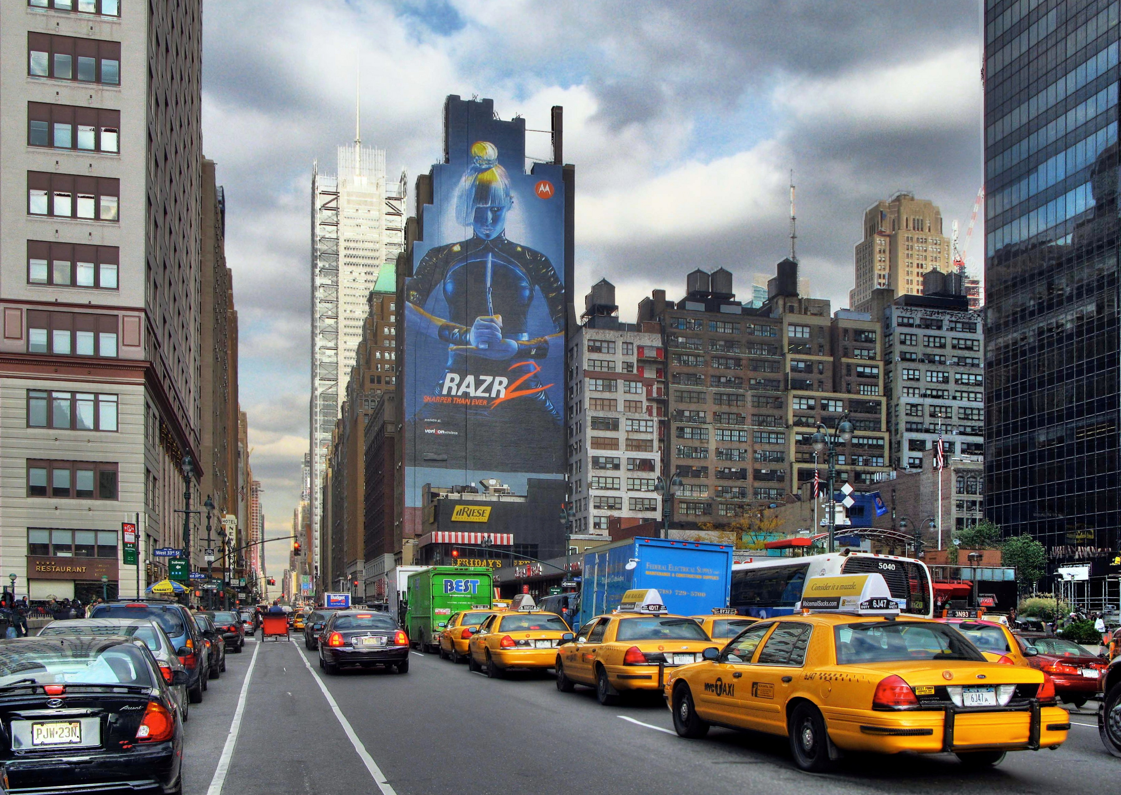 I Took This While Skating Thru Traffic On 8th Ave at 32nd Street.... HandHeld 3xp .. 2007 - Manhattan,NYC©